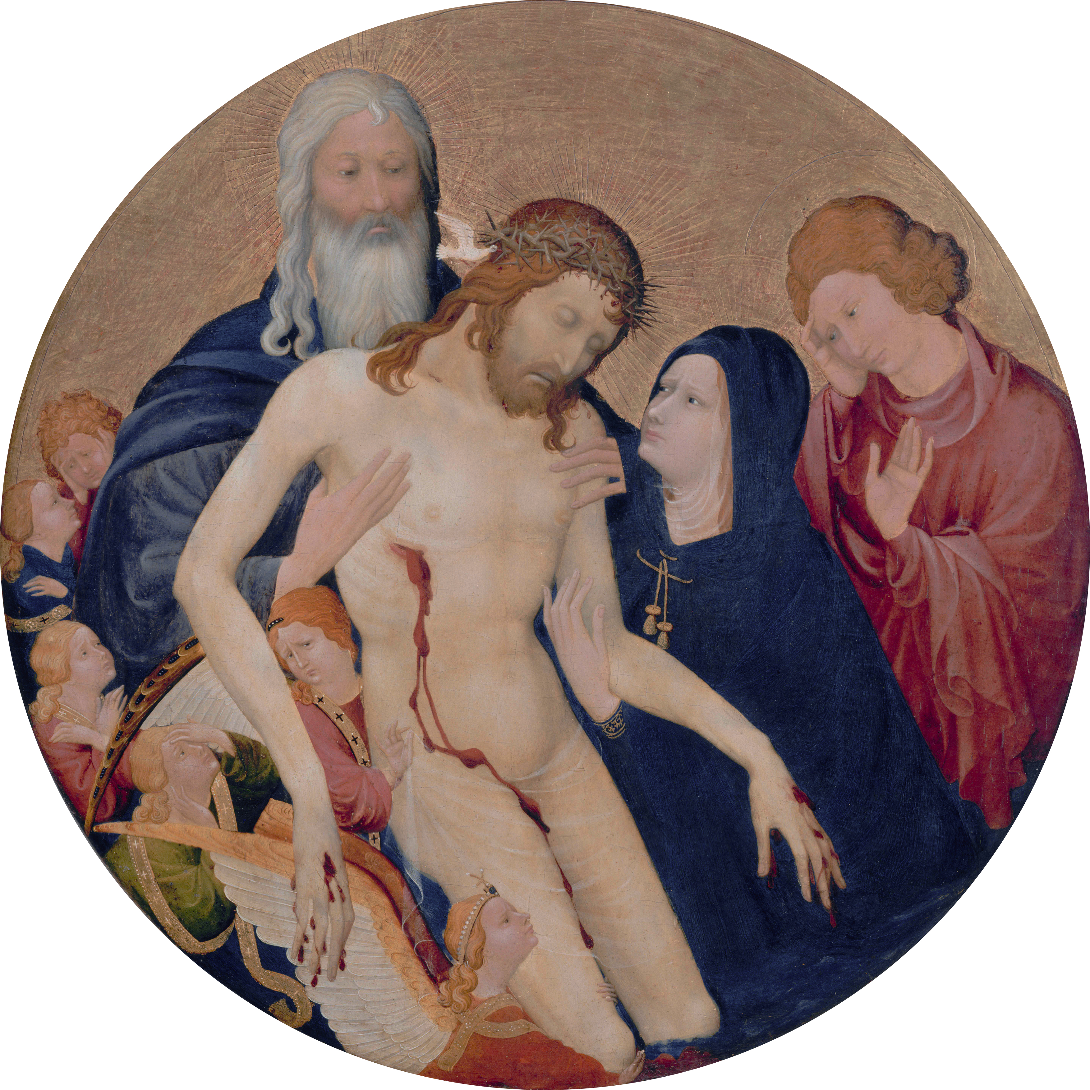 The Lamentation oil on panel 64,5 x 64,5 cm 1390 - 1410